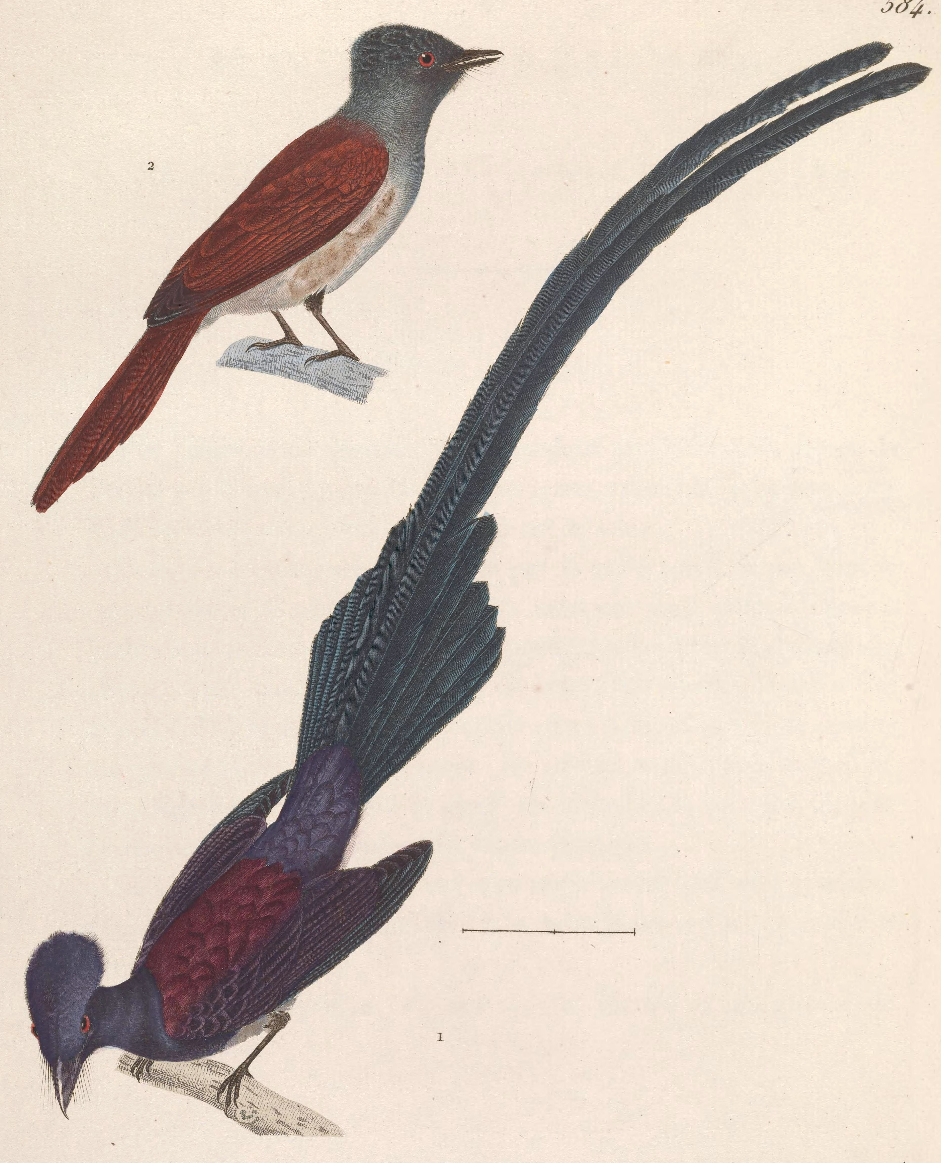 « Muscipeta princeps » = Terpsiphone atrocaudata atrocaudata (Subspecies of Japanese Paradise Flycatcher) - male and female